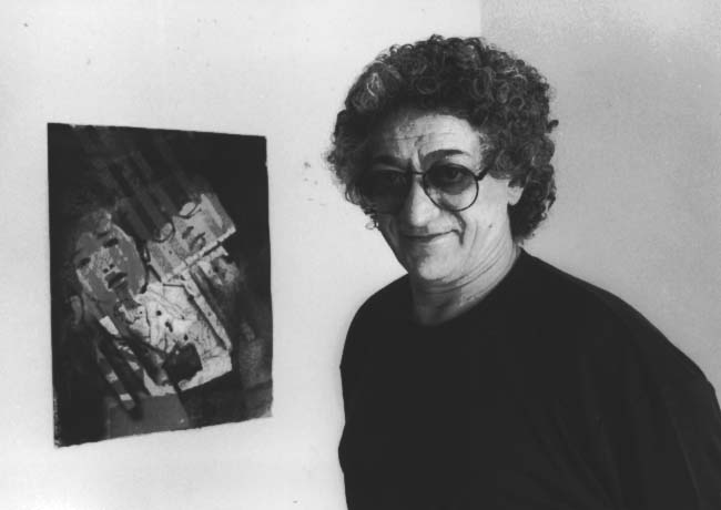 Artist Image